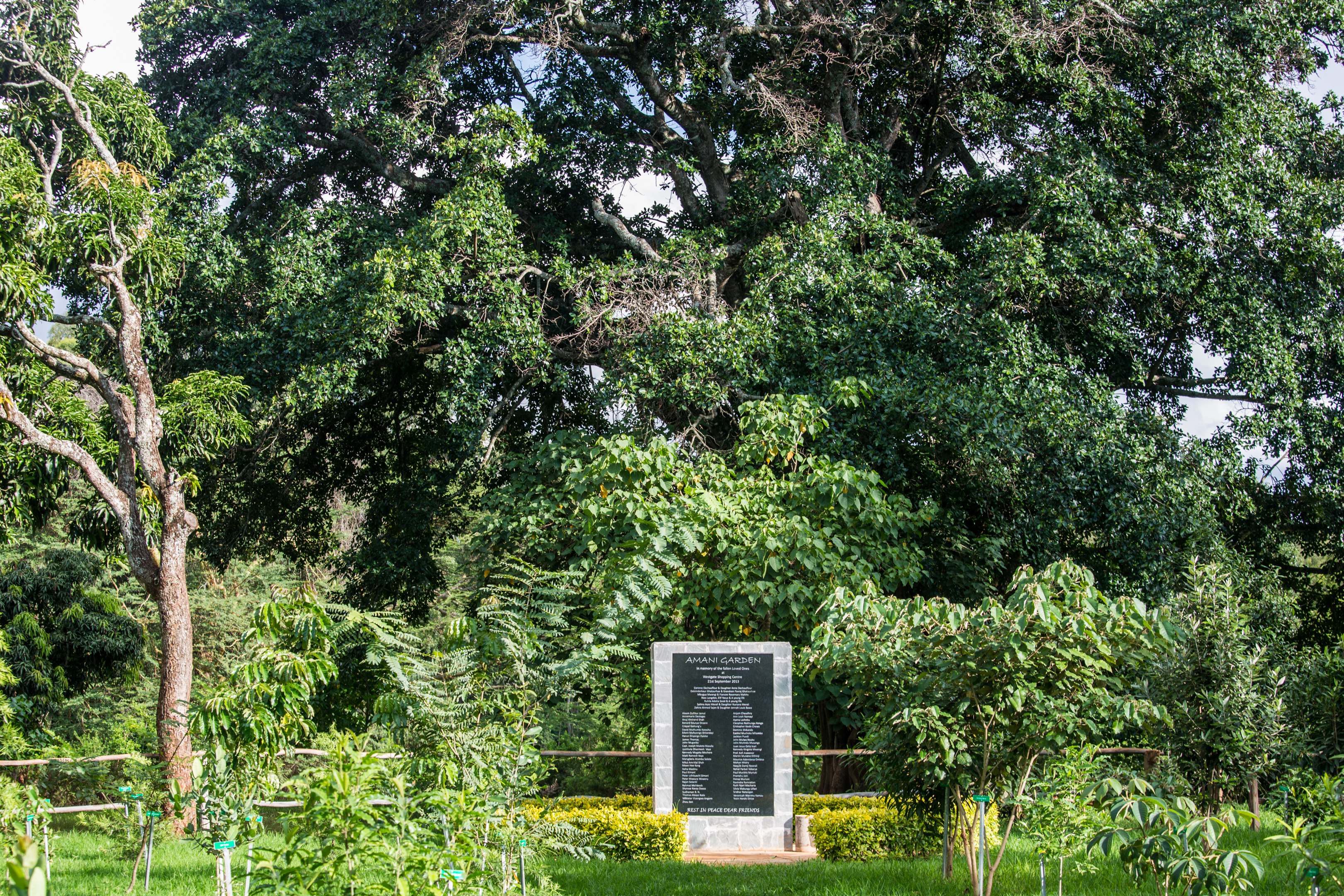 Amani Garden in memory of the victims at Westgate Shopping Centre 21st September 2013